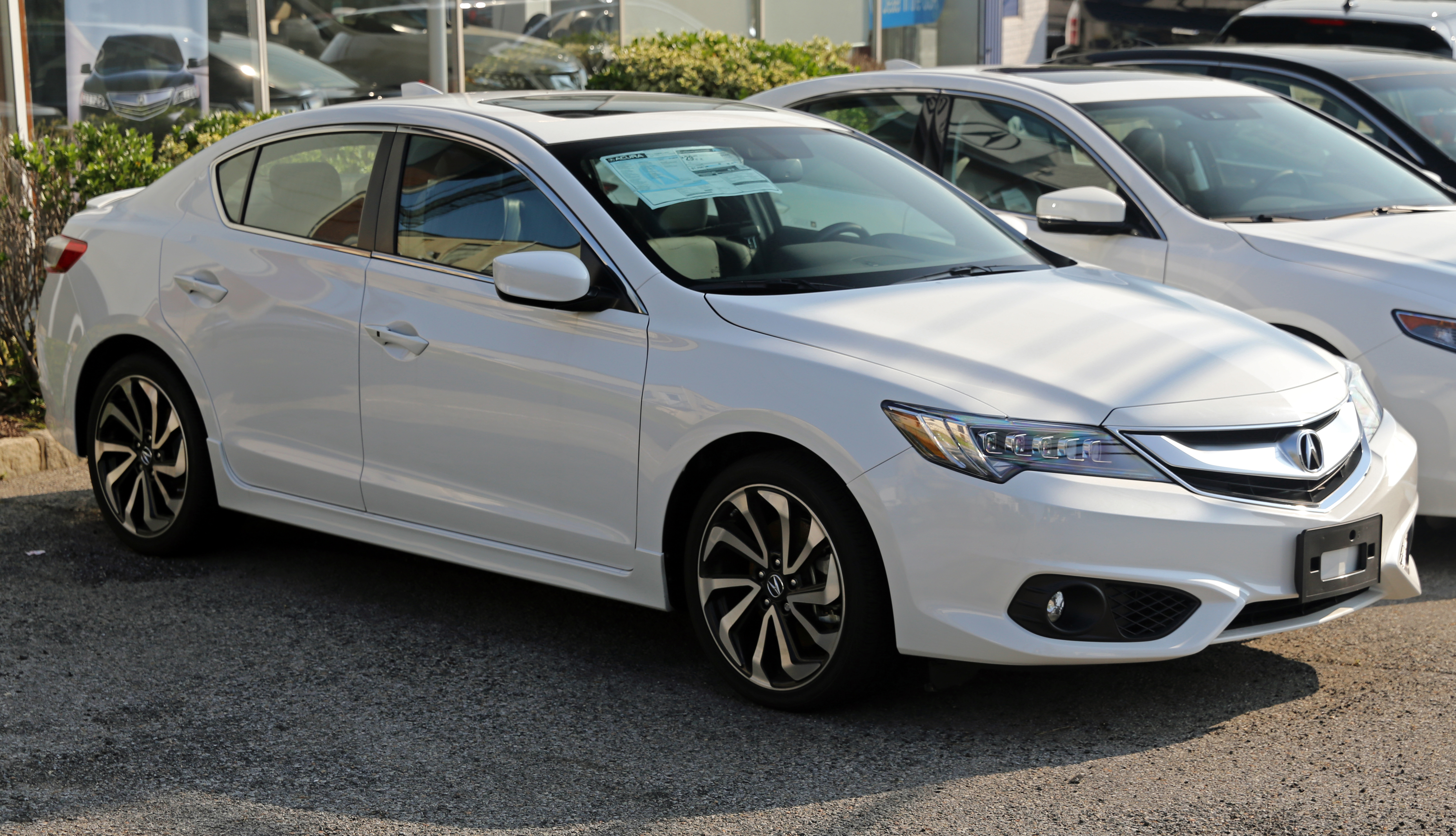 2016 Acura ILX with the Premium and A-Spec packages. 2.4-liter inline-four and an eight-speed dual clutch transmission.